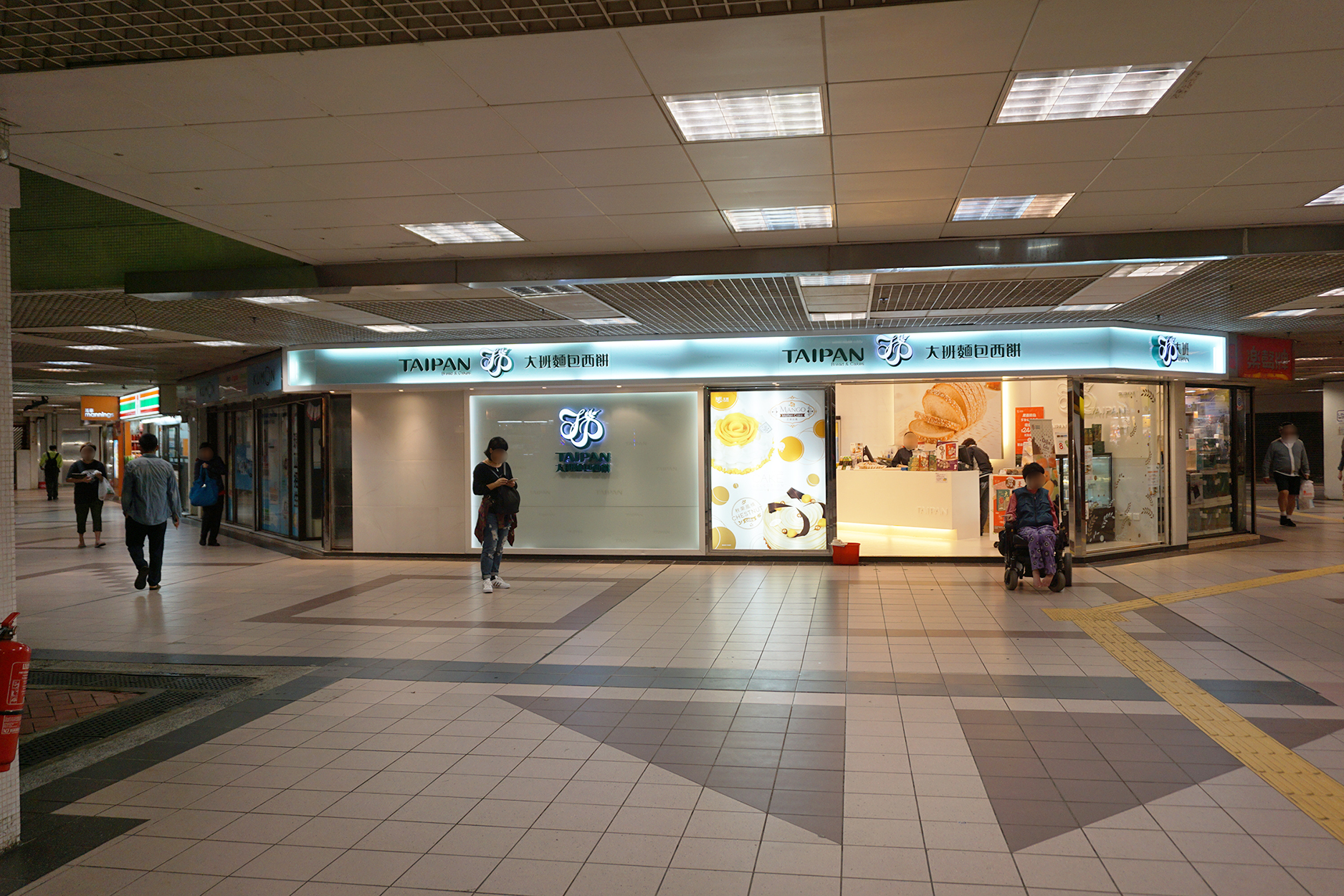 Kai Yip Shopping Centre in Kowloon Bay, Hong Kong.